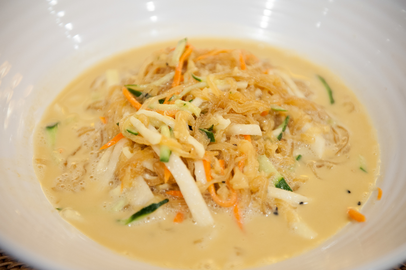 Haepari-naengchae (chilled jellyfish salad)